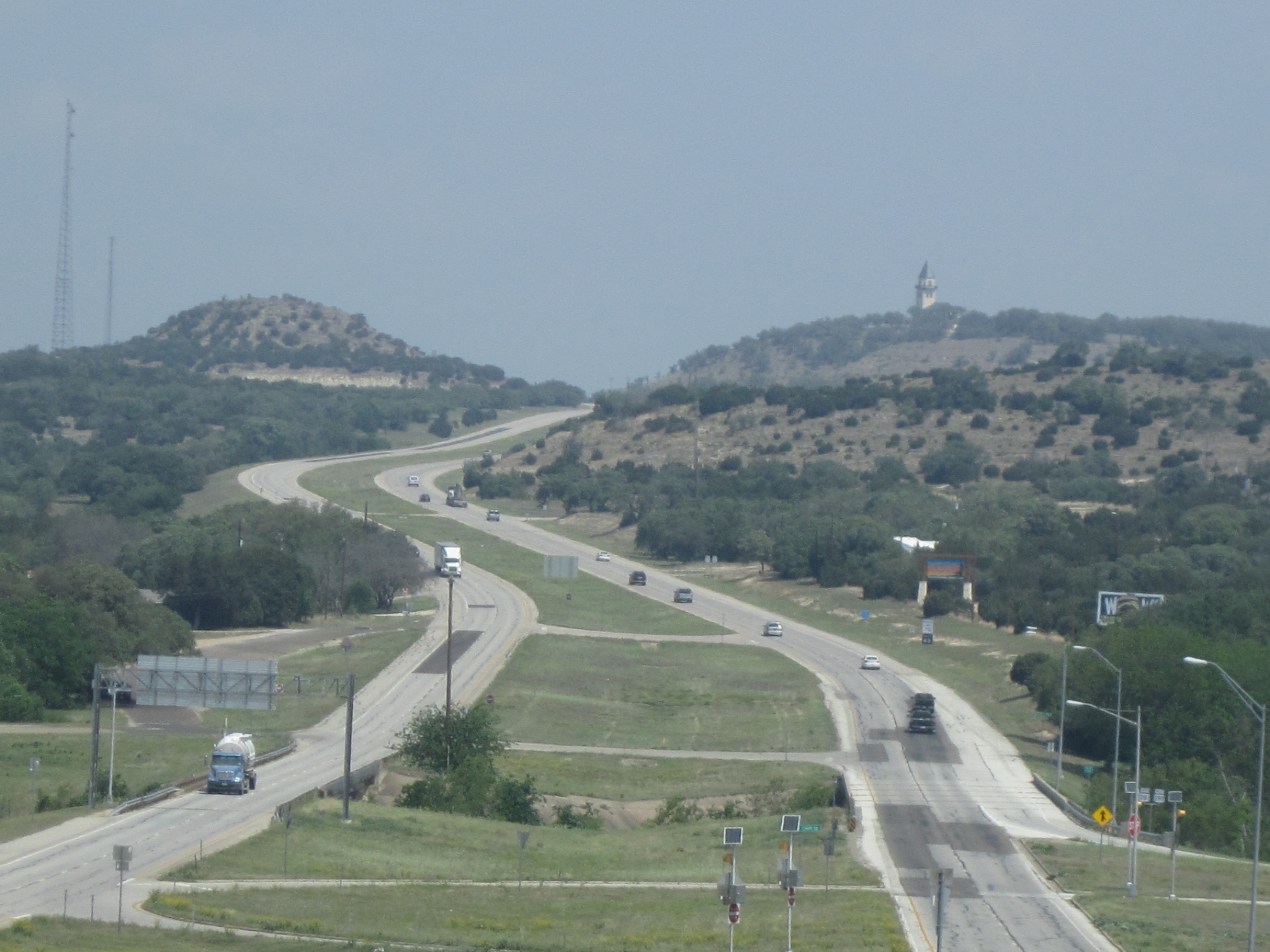 I took photo with Canon camera on U.S. Route 281 between San Antonio and Blanco, TX.